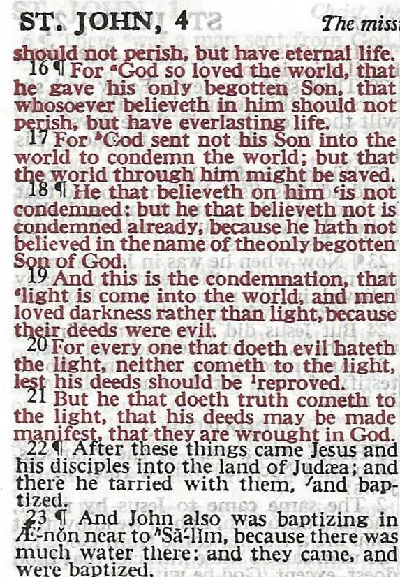 A scan of John 3:15-23 in a Red letter edition of the King James Bible published by World Bible Publishers. The KJV text is used because it is in the public domain, except for the UK. If you are in the UK, do not download this image!